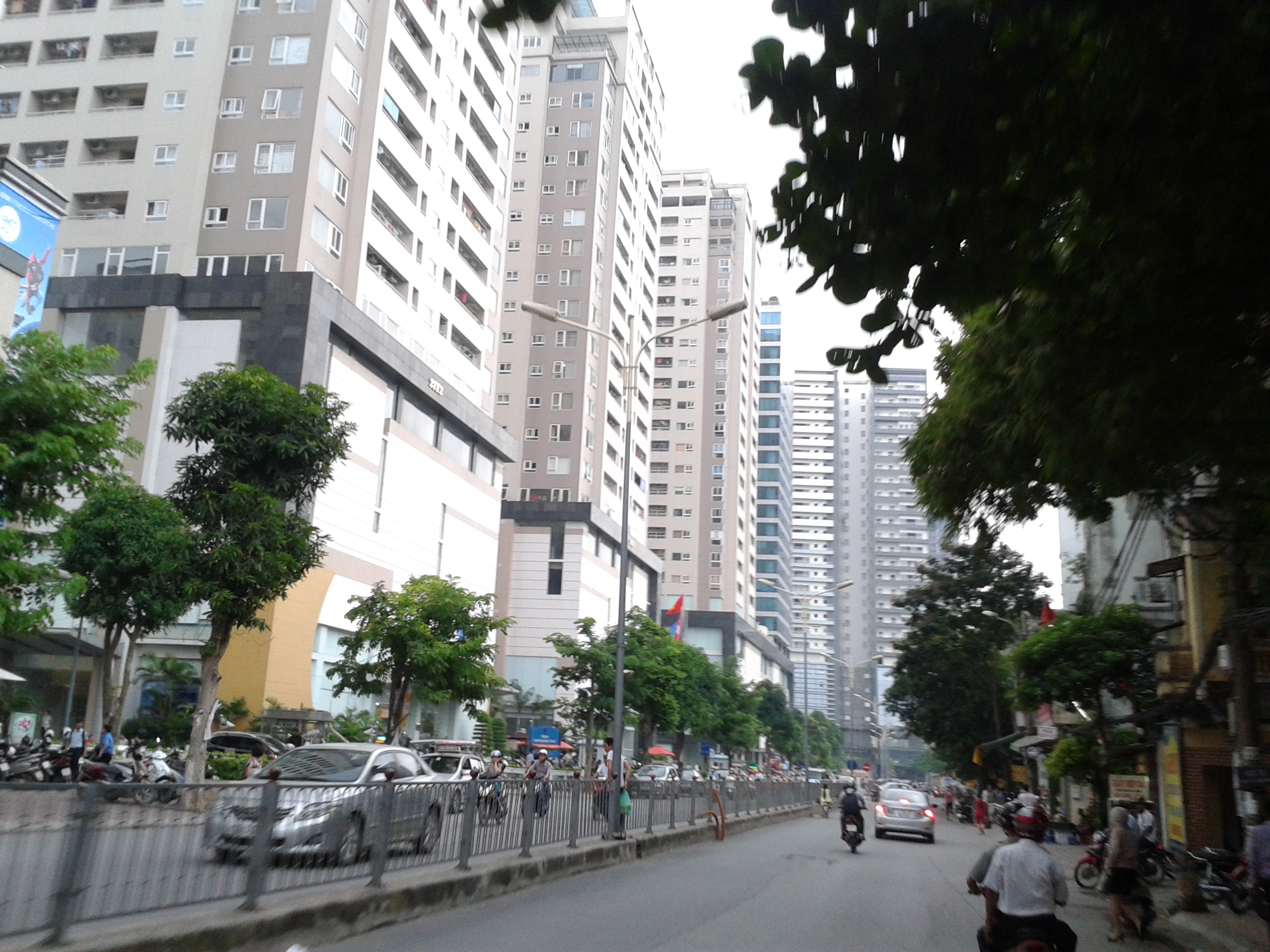 Vũ Trọng Phụng Street, Hanoi.